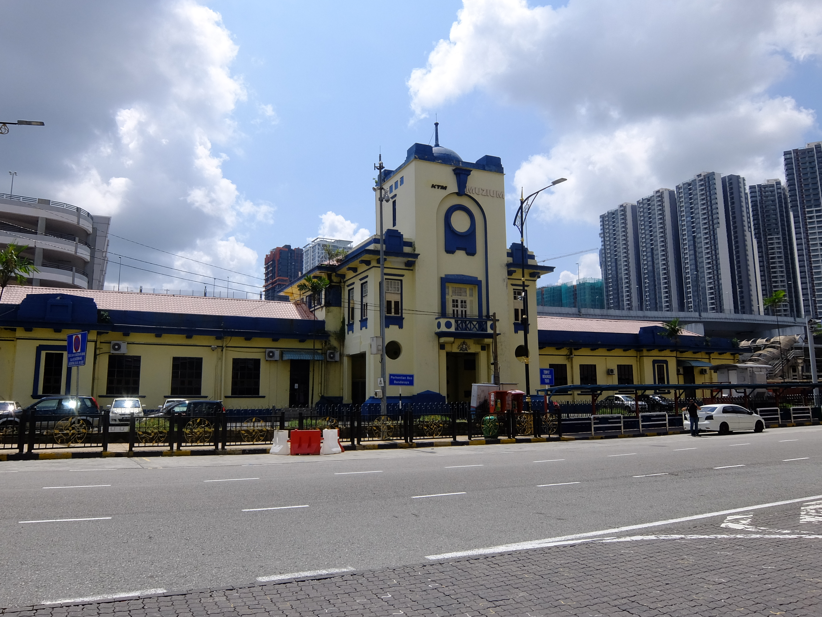 KTM Museum, Johor Bahru, Johor, Malaysia